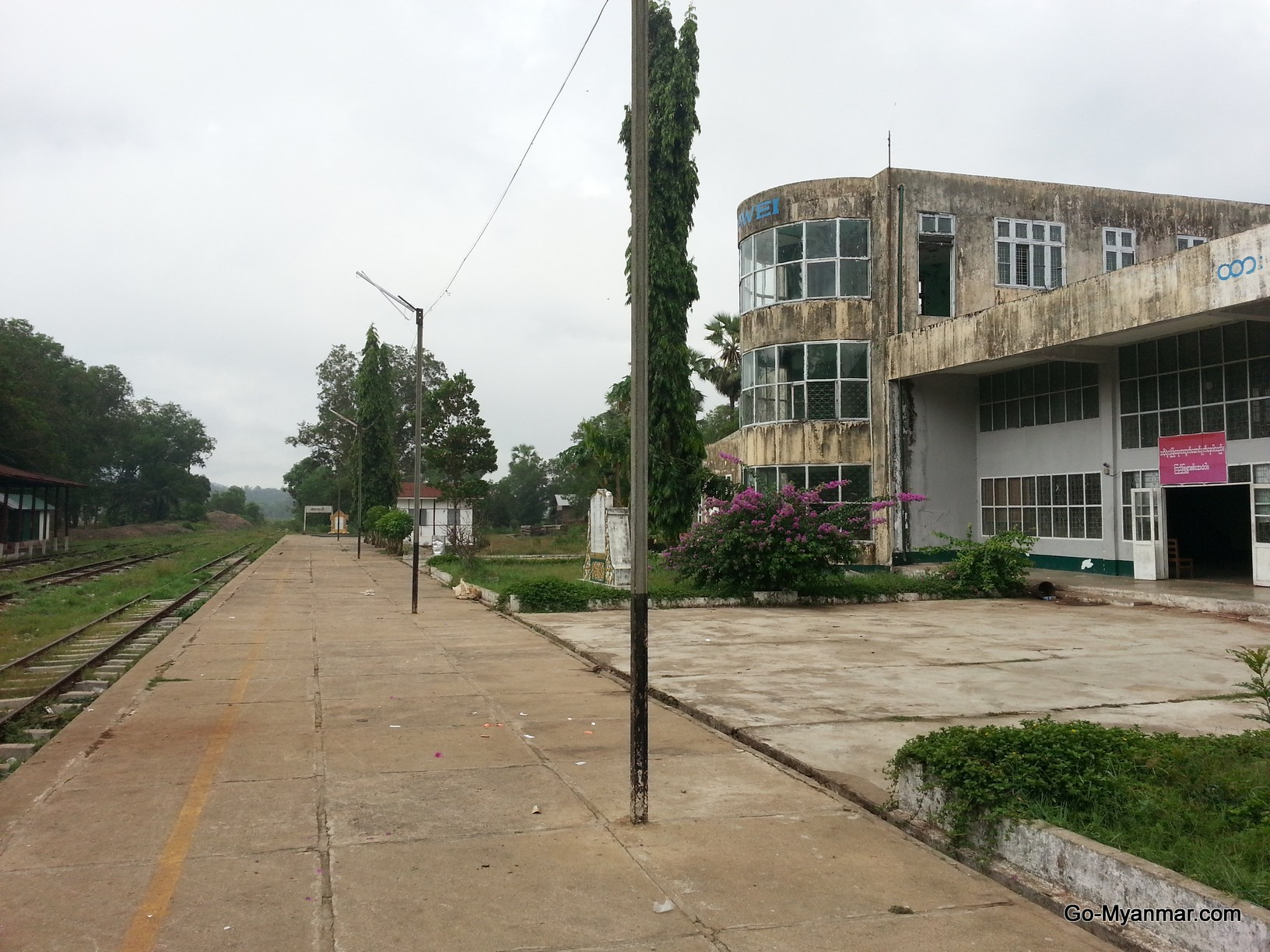 the train from Ye to Dawei